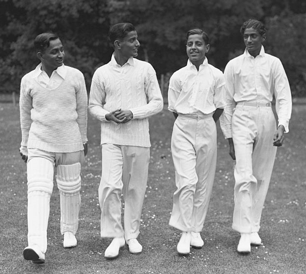 Four nephews of Indian cricket legend Ranji (Kumar Shri Ranjitsinhji), who have followed their uncle into the sport, 20th June 1932. From left to right, K.S. Samarsinhji, K.S. Indravijaysinhi, K.S. Ranvirsinhji and K.S. Jayendrasinhji. The first three are brothers